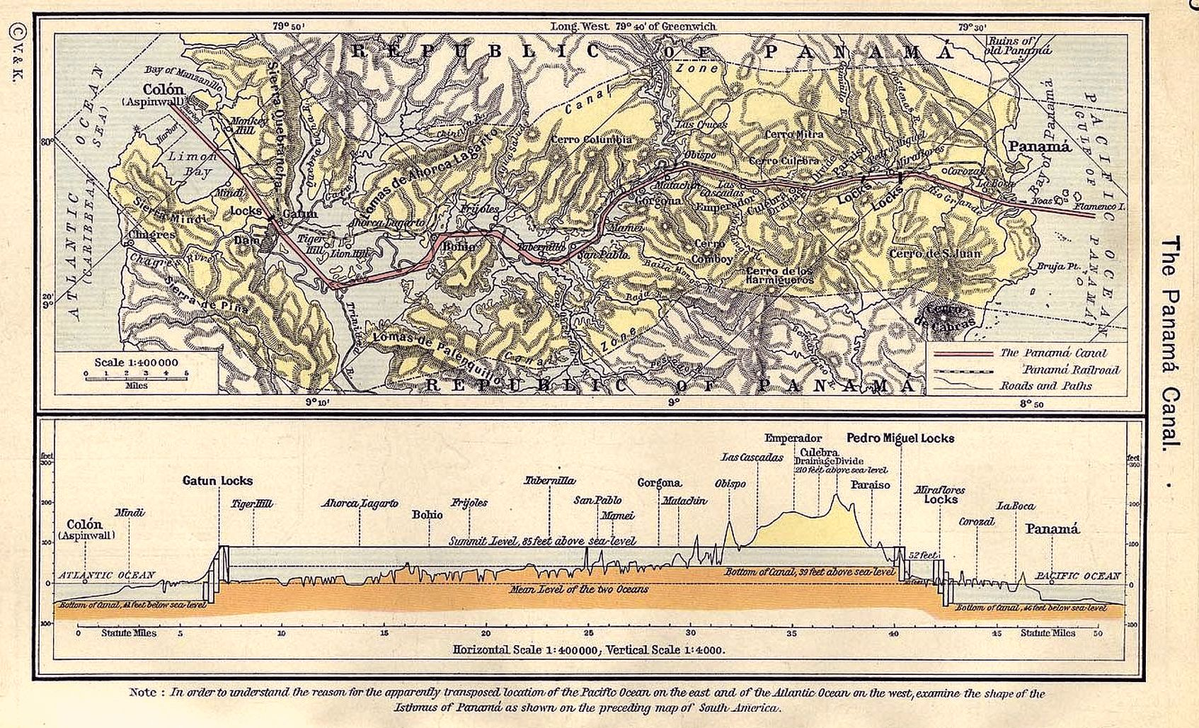 Panama Canal relief and cross section map